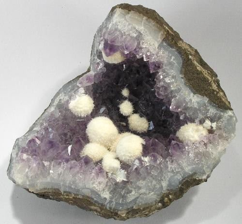 Mordenite, Quartz (Var.: Amethyst) Locality: Jalgaon District, Maharashtra, India (Locality at ) Size: 9 x 8 x 5.6 cm. A first-rate Mordenite specimen from Jalgaon. The Mordenite balls are nicely balanced across the Amethyst pocket, giving the specimen fine balance to go along with the beautiful contrast in color. The Mordenites have excellent definition, where you can actually see the terminations of the fine needles that comprise each ball, the largest of which is 1.3 cm across. The Mordenite even has a fine white fluorescence. Ex. Charlie Key.